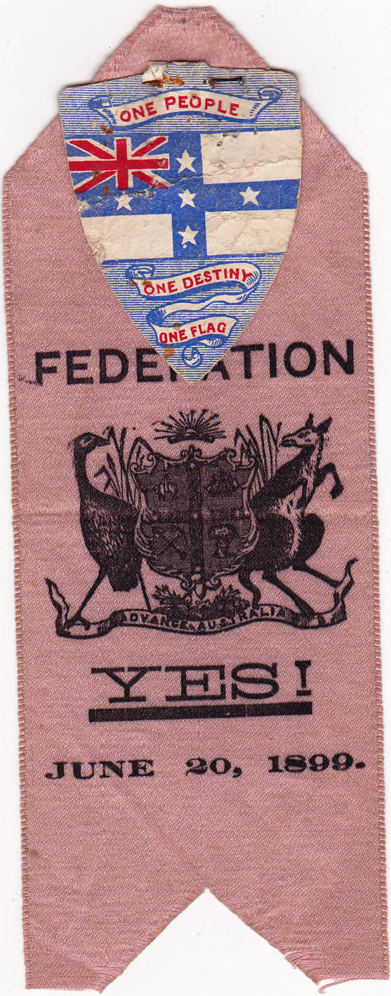 A ribbon promoting a Yes vote in the 1899 Federation referendum in Australia produced by Turner & Henderson, booksellers and stationers of Hunter Street, Sydney